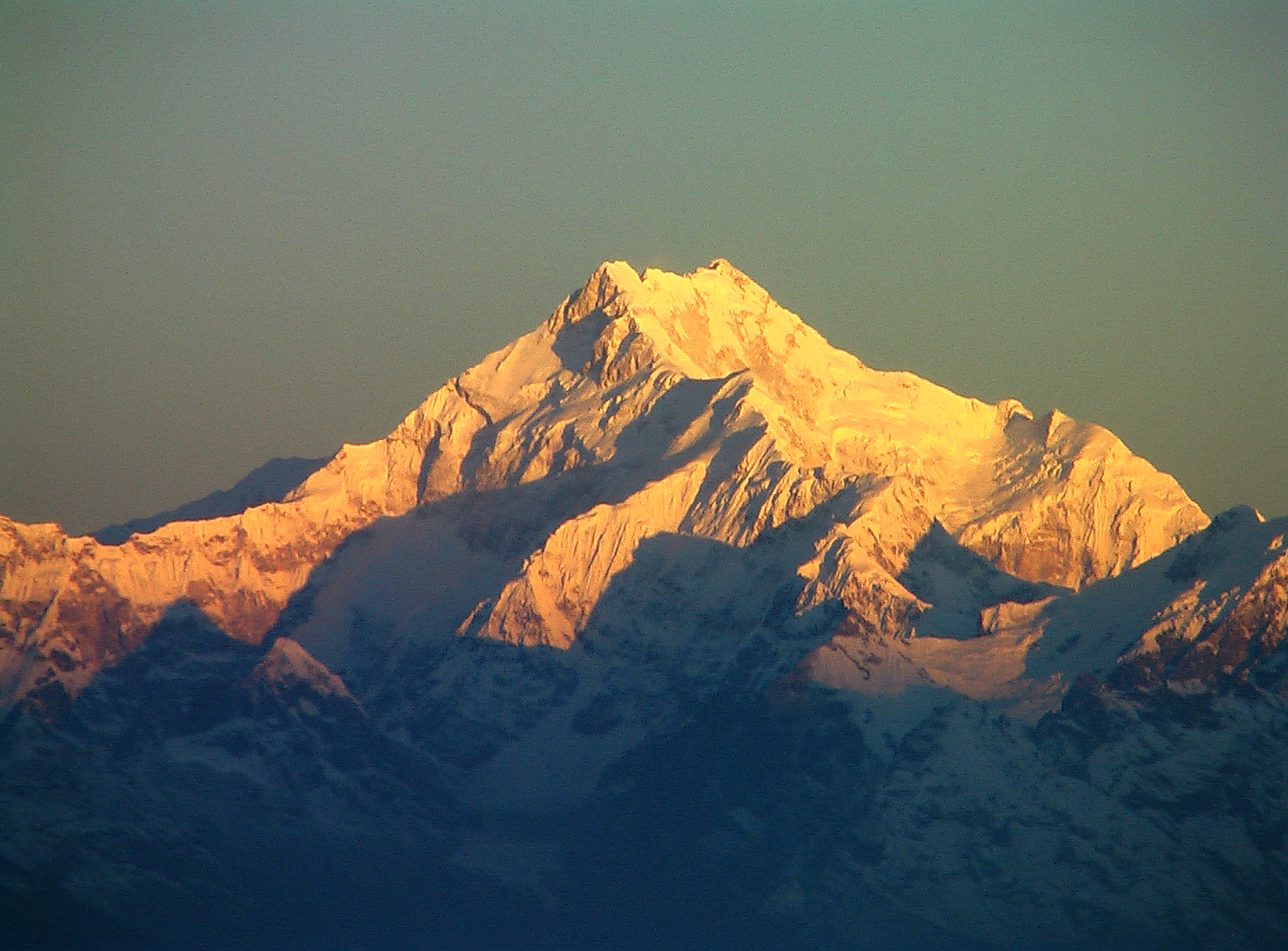 Mt. Kanchenjunga seen from Lungthung, Zuluk, East Sikkim